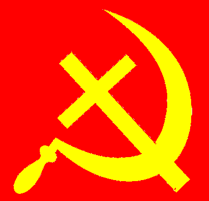 Sickle and cross, the symbol of Christian Communism.